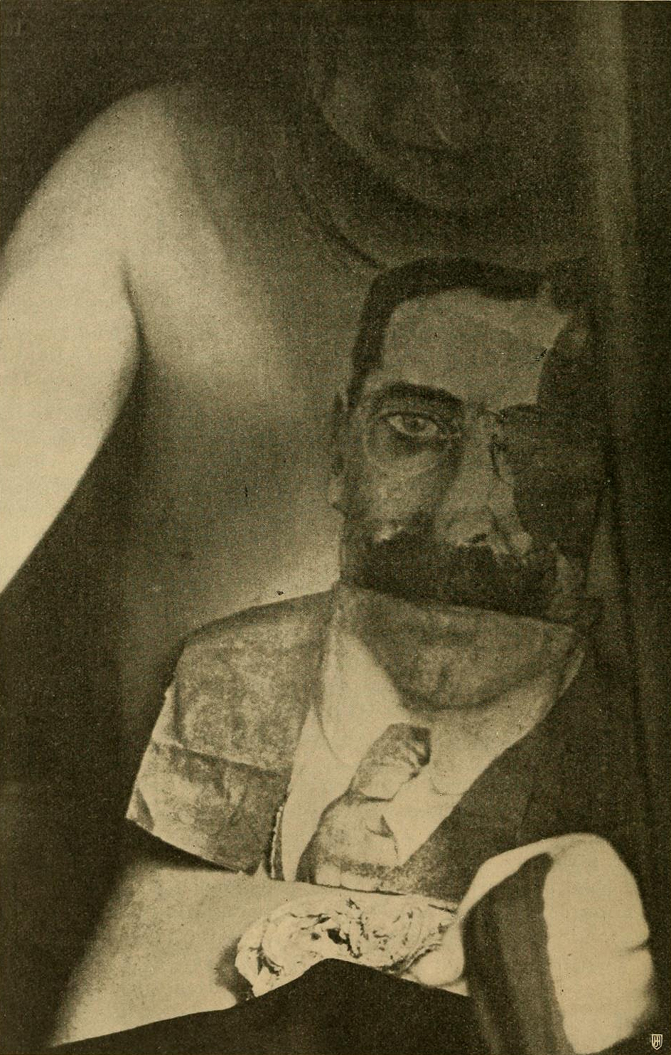 Phenomena of Materialisation: A Contribution to the Investigation of Mediumistic Teleplastics. trans. E. E. Fournier d'Albe. New York: E.P. Dutton & Co, 1920. (Republished in 1923).